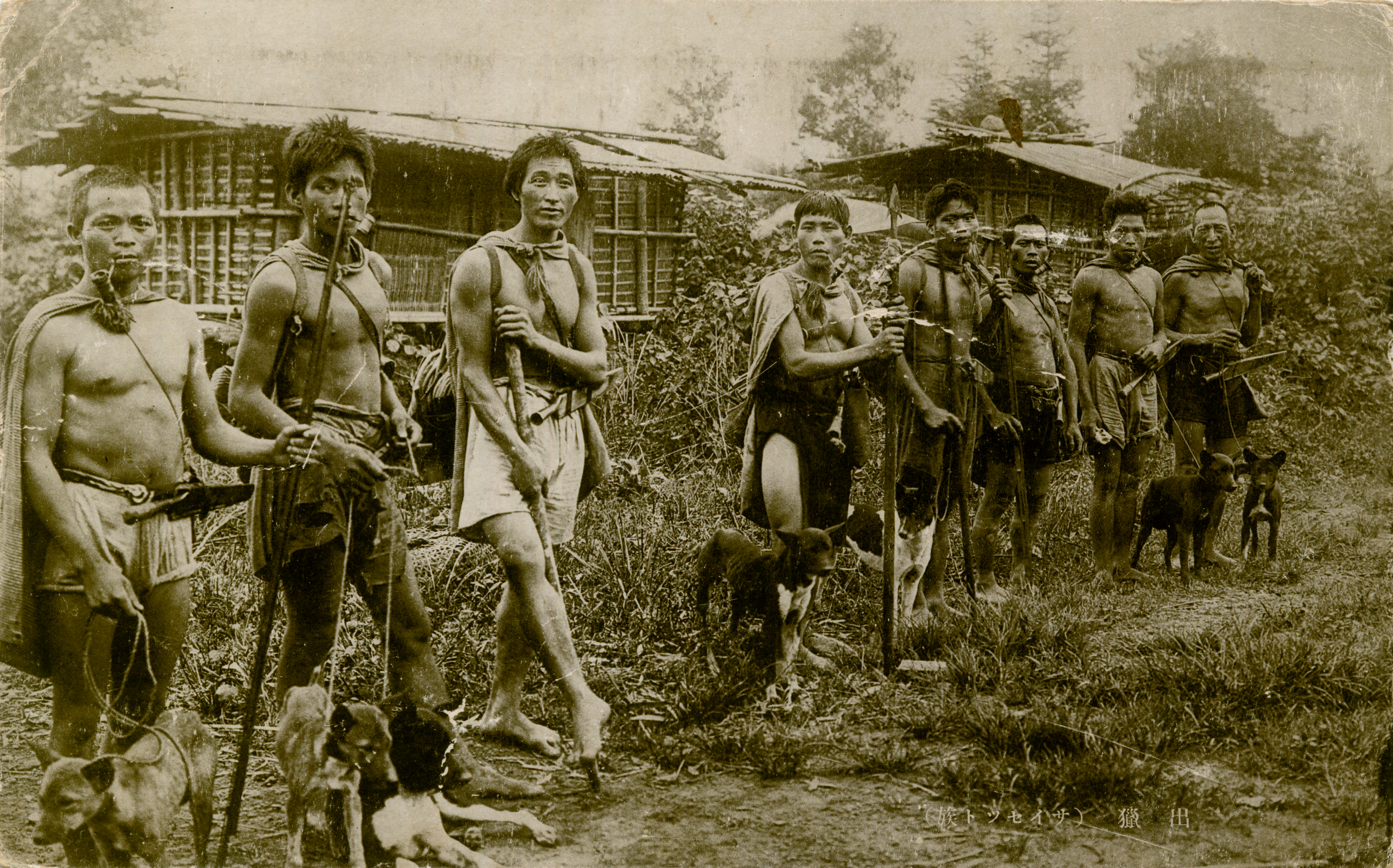 This is a collection from National Geographic photo, taken by Japanese Photographer Katsuyama (幽芳勝山), at Saisiyat tribe.